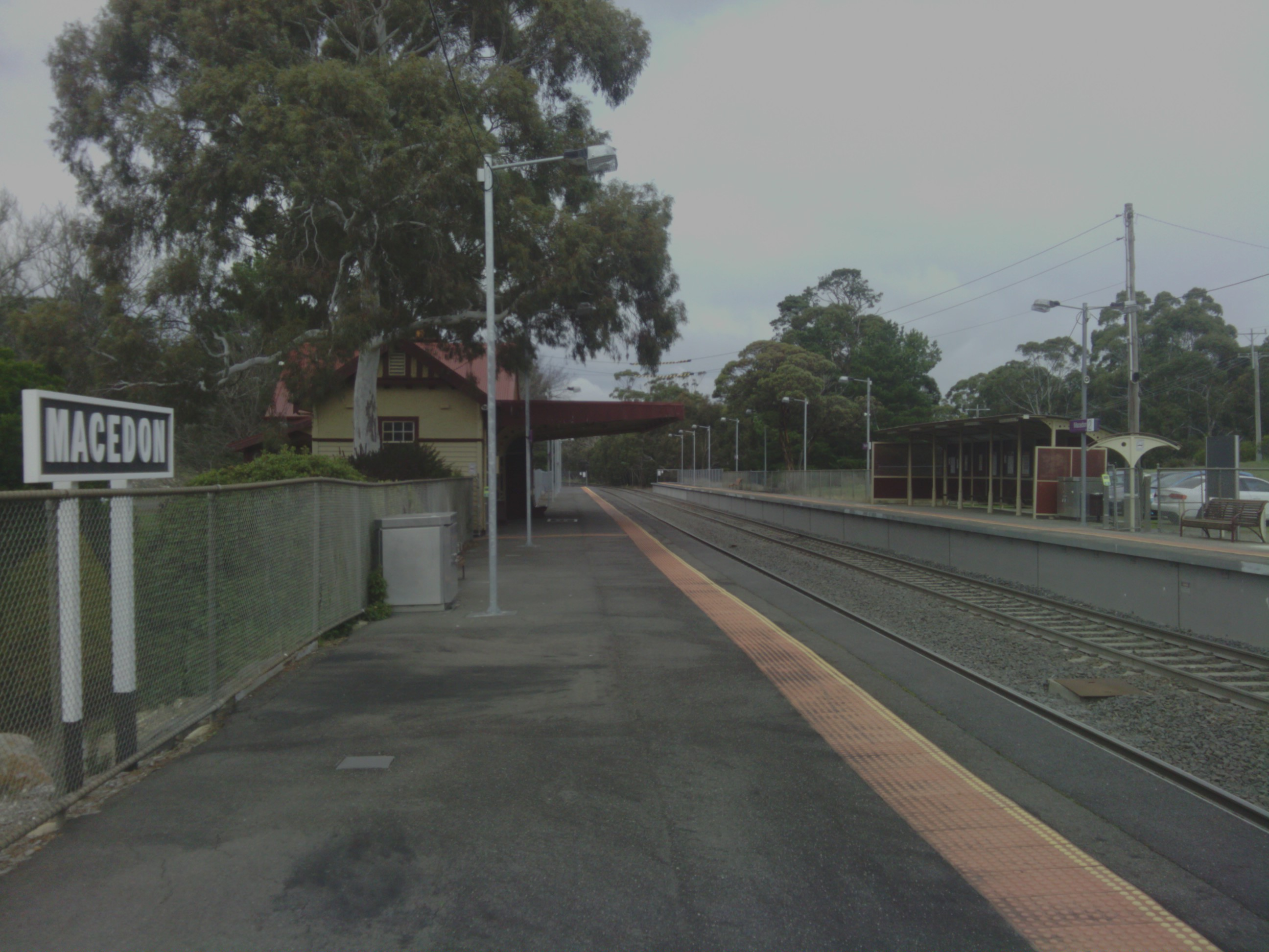 Macedon Railway Station, Victoria.